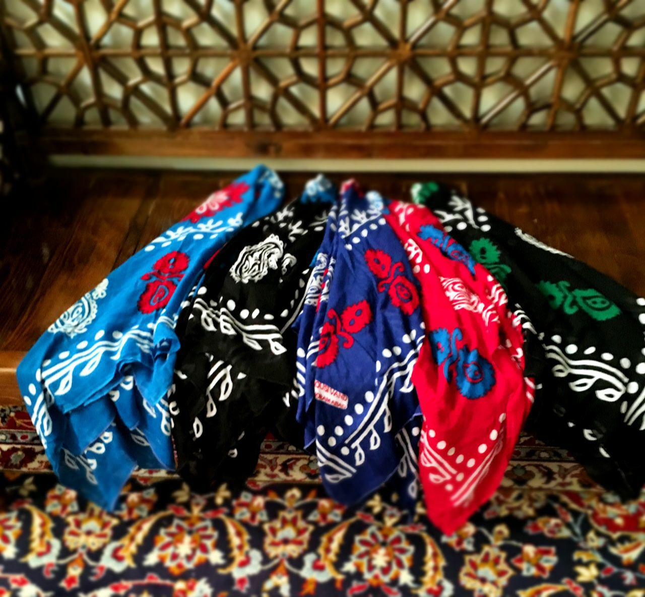 Lurish Golvani